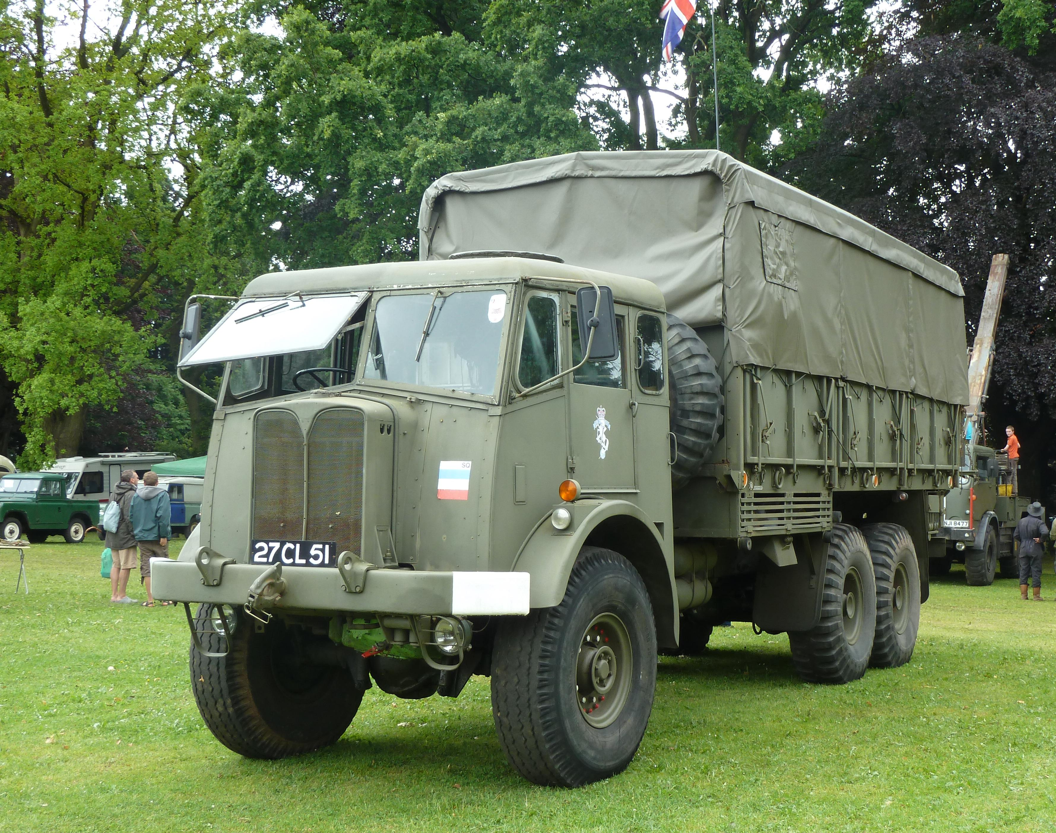 AEC Militant, Mk 1, 10 ton GS wagon. Registration 27 CL 51 I think this is the FV 11016 variant: 6×6 dropside, with a front winch. Abergavenny steam rally, 2011.